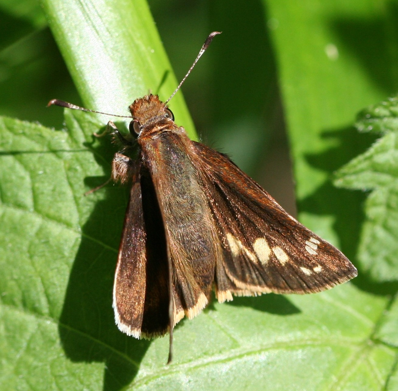 Female Zabulon Skipper (Poanes zabulon)